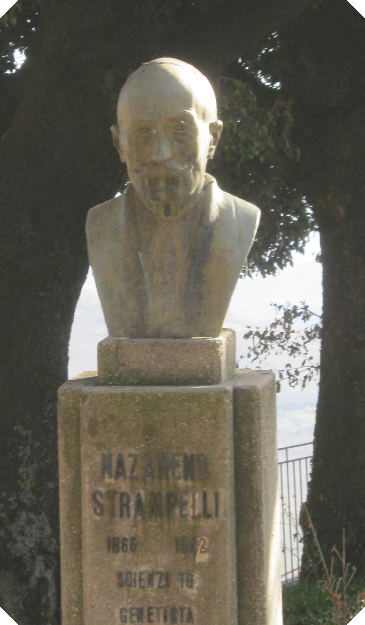 Photo of the bust of Nazareno Strampelli (1866-1942), italian agronomist and geneticist. The bust is in the public gardens of Camerino, Italy.